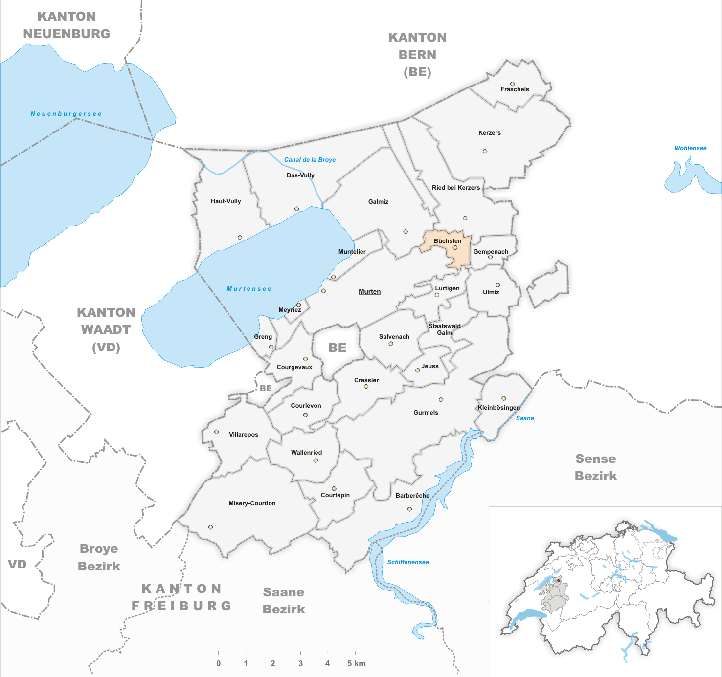 Municipality Büchslen